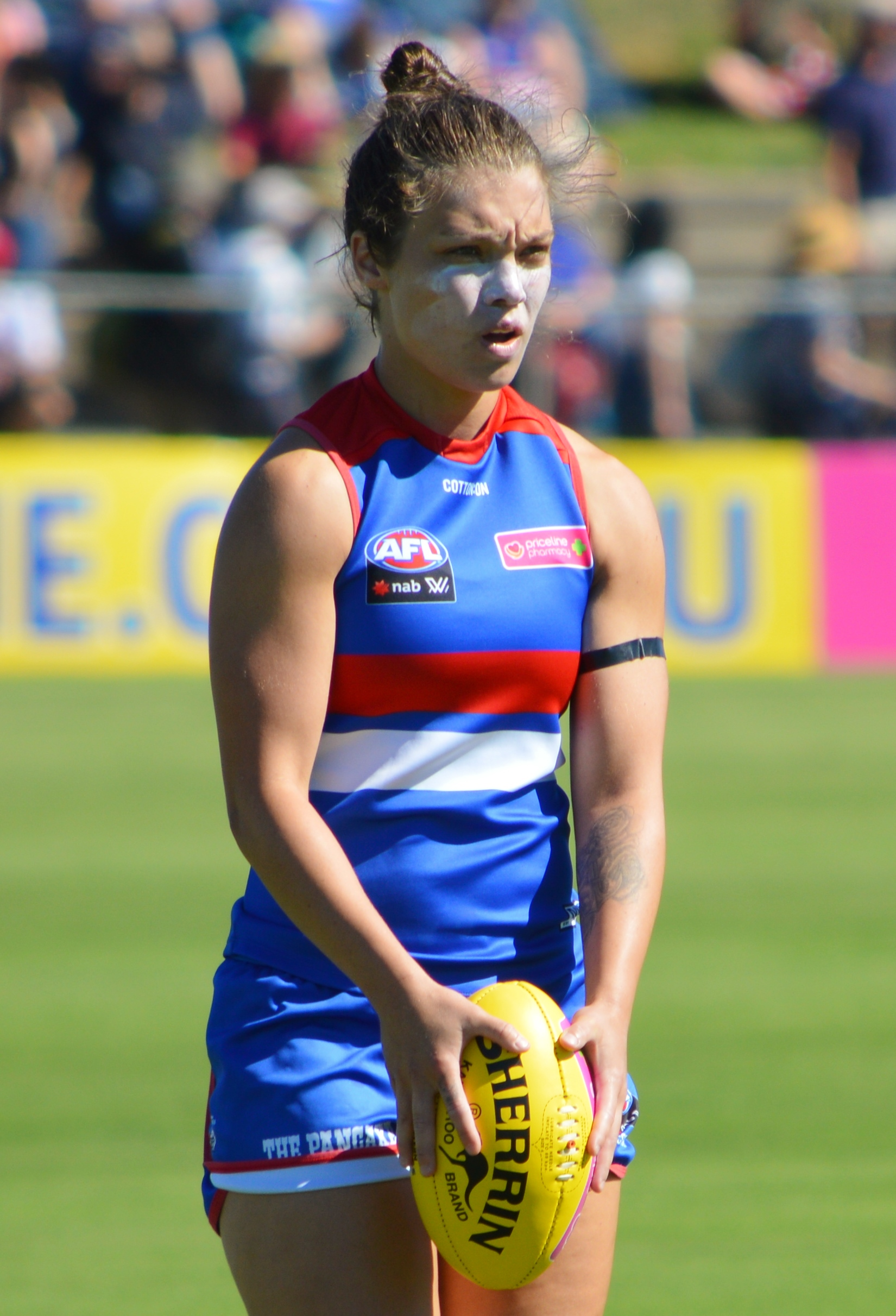 Ellie Blackburn during the round 1, 2018 AFL Women's match between the Western Bulldogs and Fremantle.